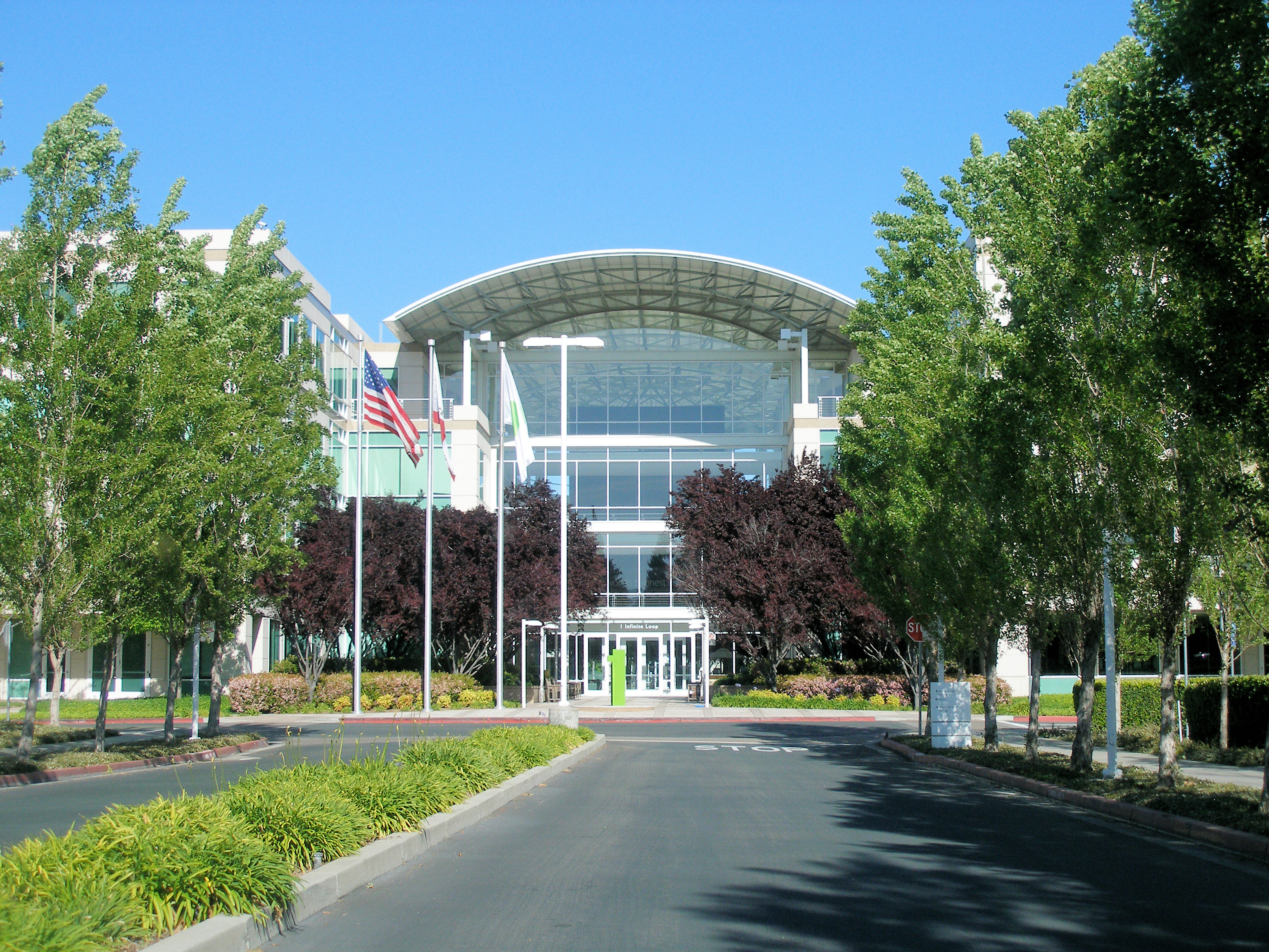 Apple Computer headquarters complex, Building 1, 1 Infinite Loop, Cupertino, California. The August 1, 2005 version of this image was featured in Steve Wozniak's book iWoz: From Computer Geek to Cult Icon: How I Invented the Personal Computer, Co-Founded Apple, and Had Fun Doing It. The image is located on the glossy unnumbered image pages bound into the center of the book.